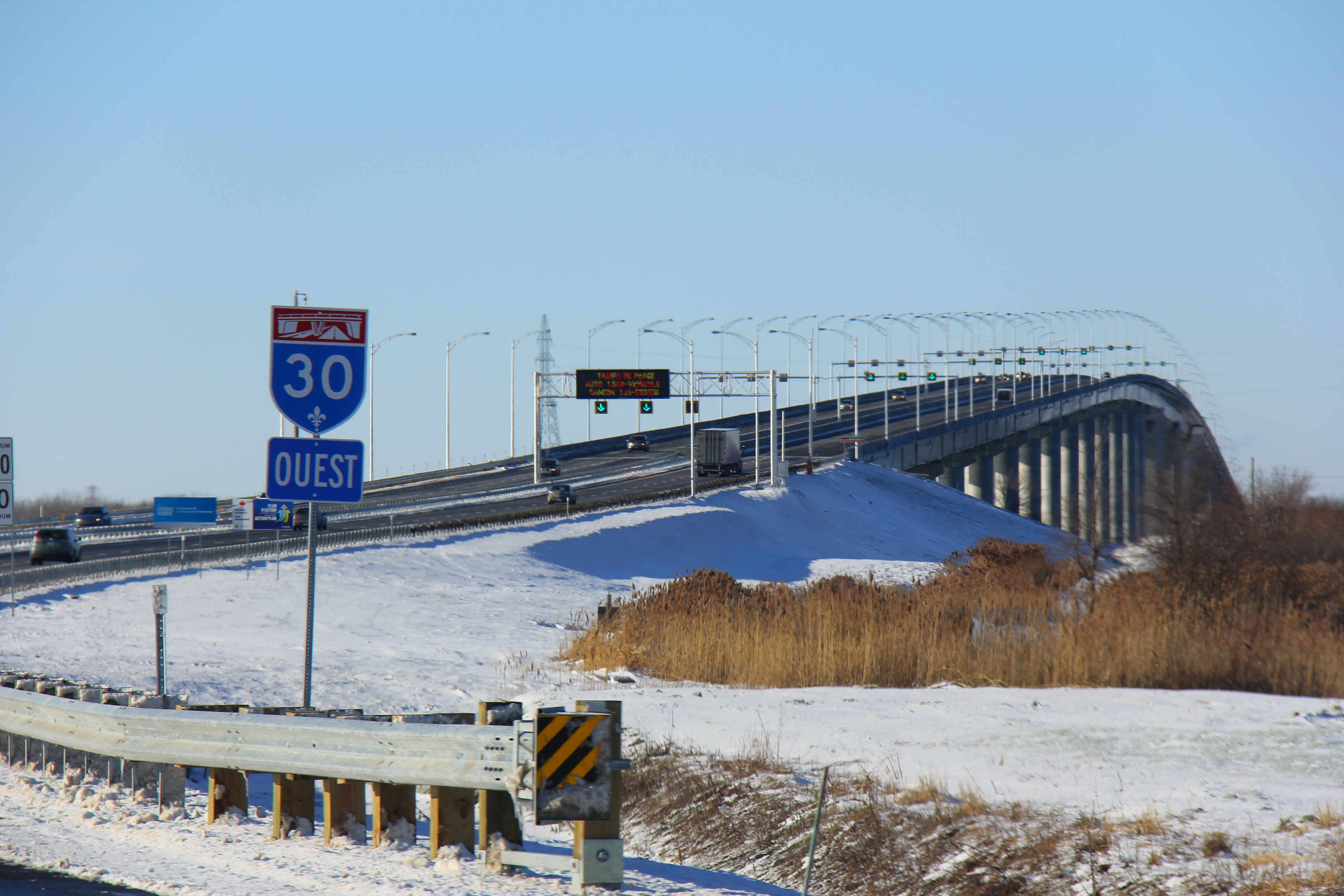 A look at the Beauharnois Canal Bridge from westbound Quebec Autoroute 30.